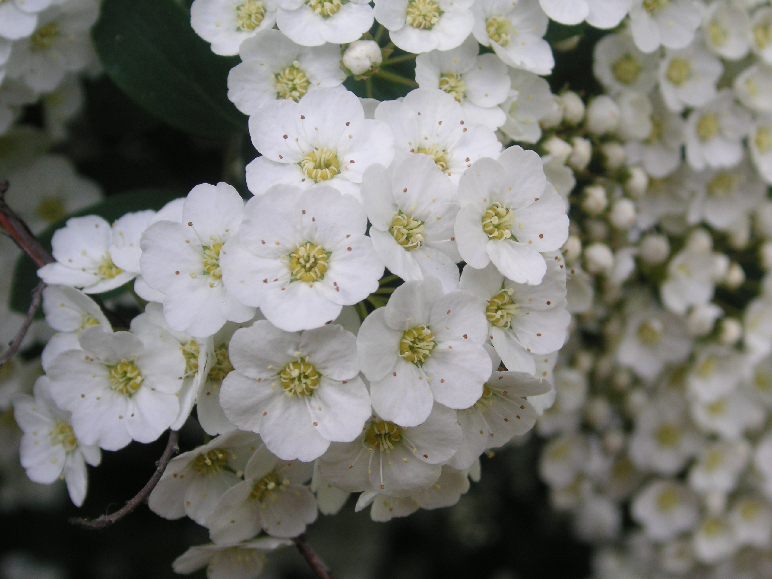 Spiraea crenata